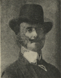 Republican member of the Portuguese 1911 Constituent Assembly.